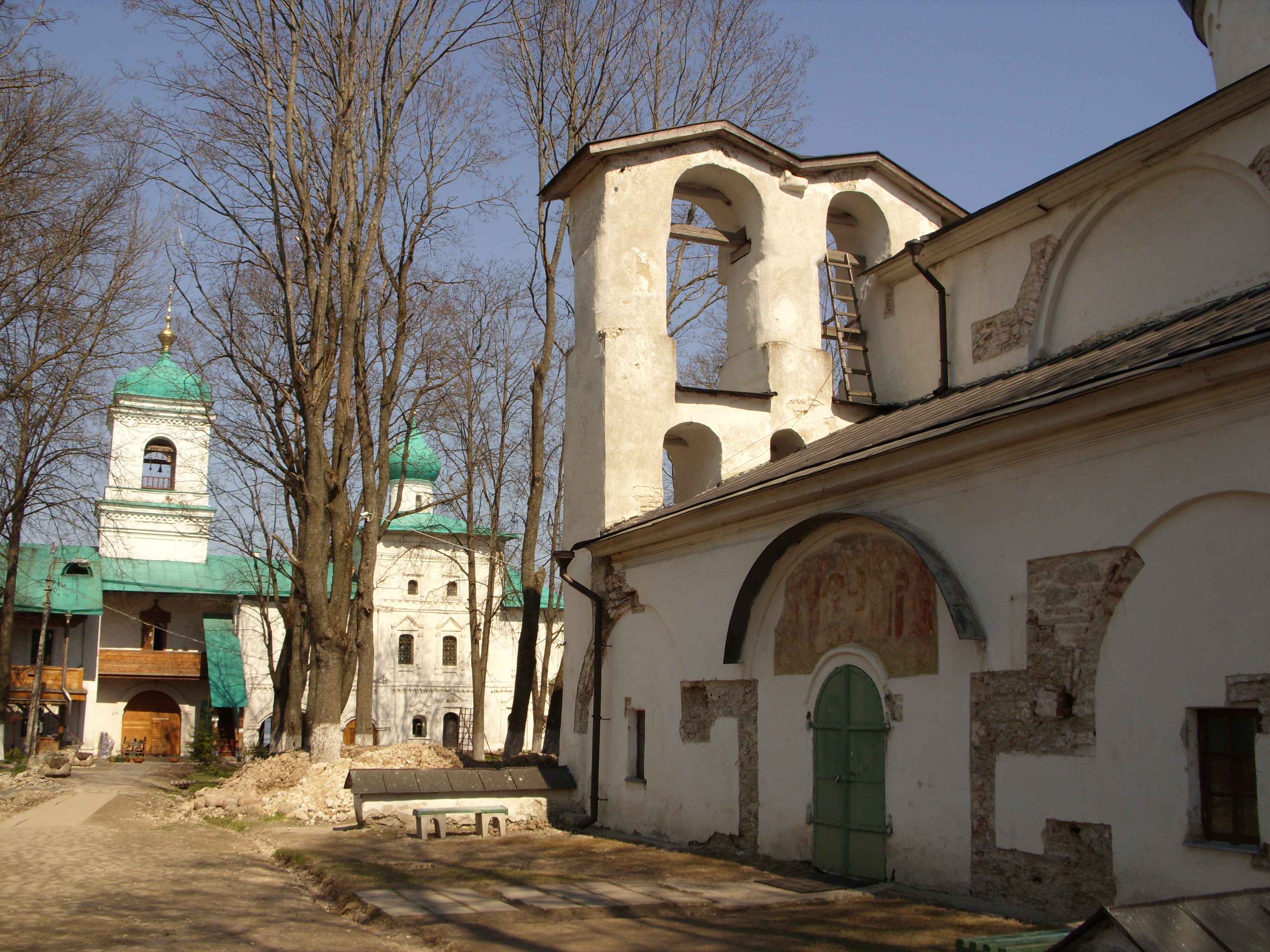 Pskov Mirozhskiy monastyr